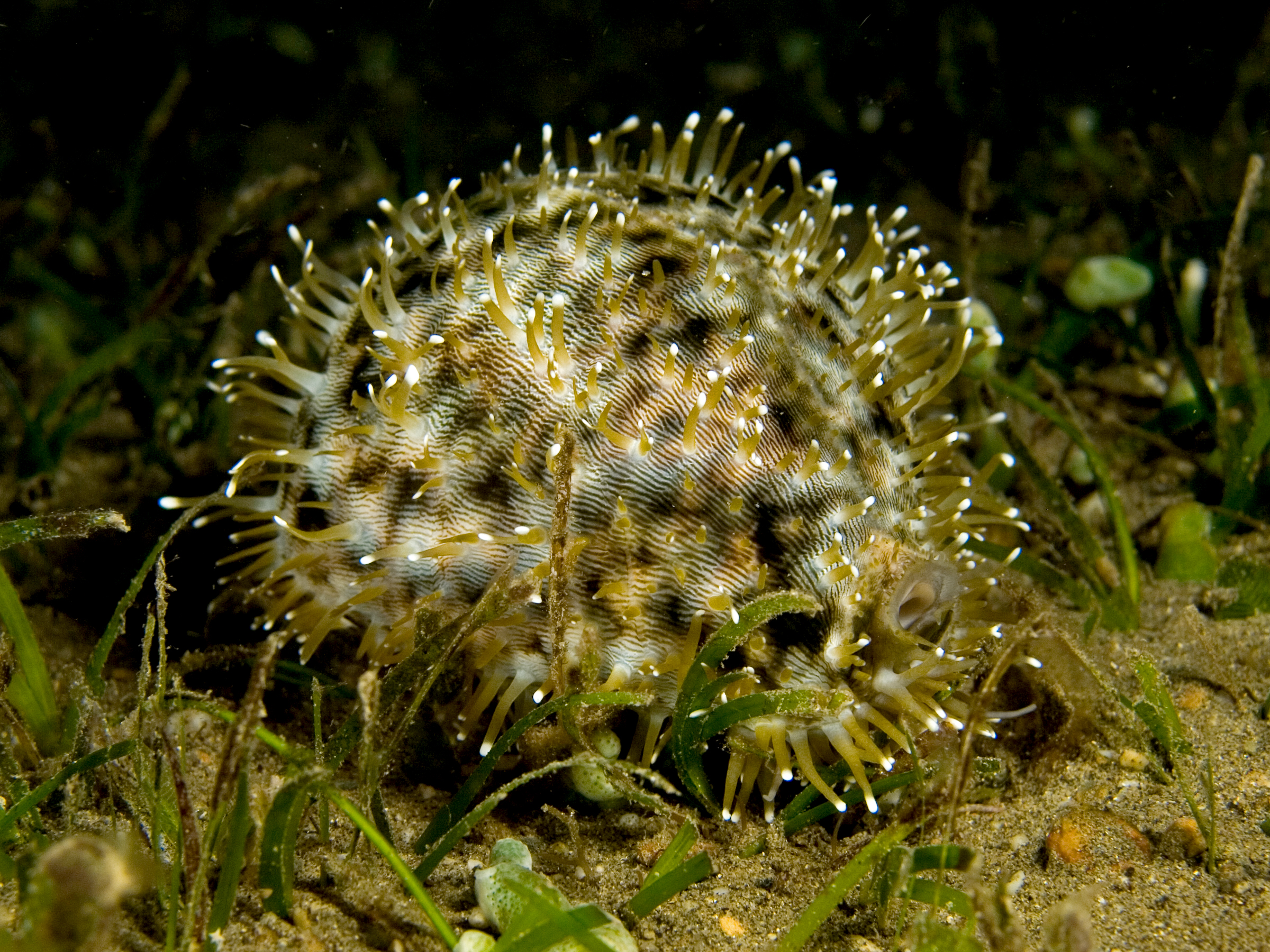 Cypraea tigris (Tiger cowrie).